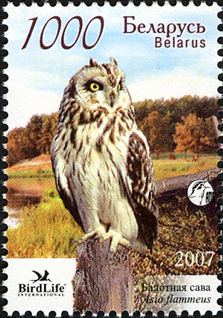 Stamp of Belarus